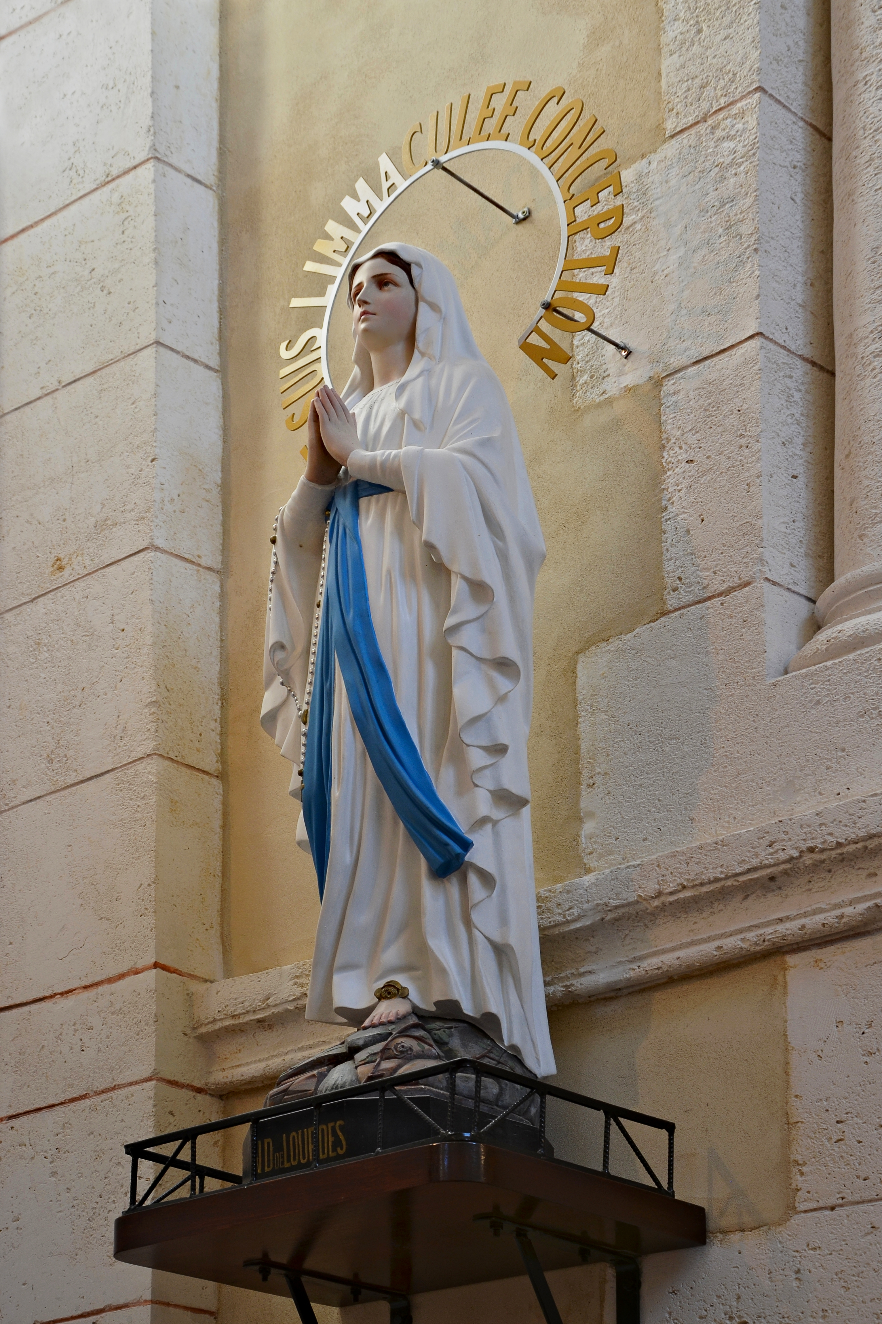 Statue of Our Lady of Lourdes (end of 19th century), recently renewed, Chapelle Notre-Dame, Chalais, Charente, France.